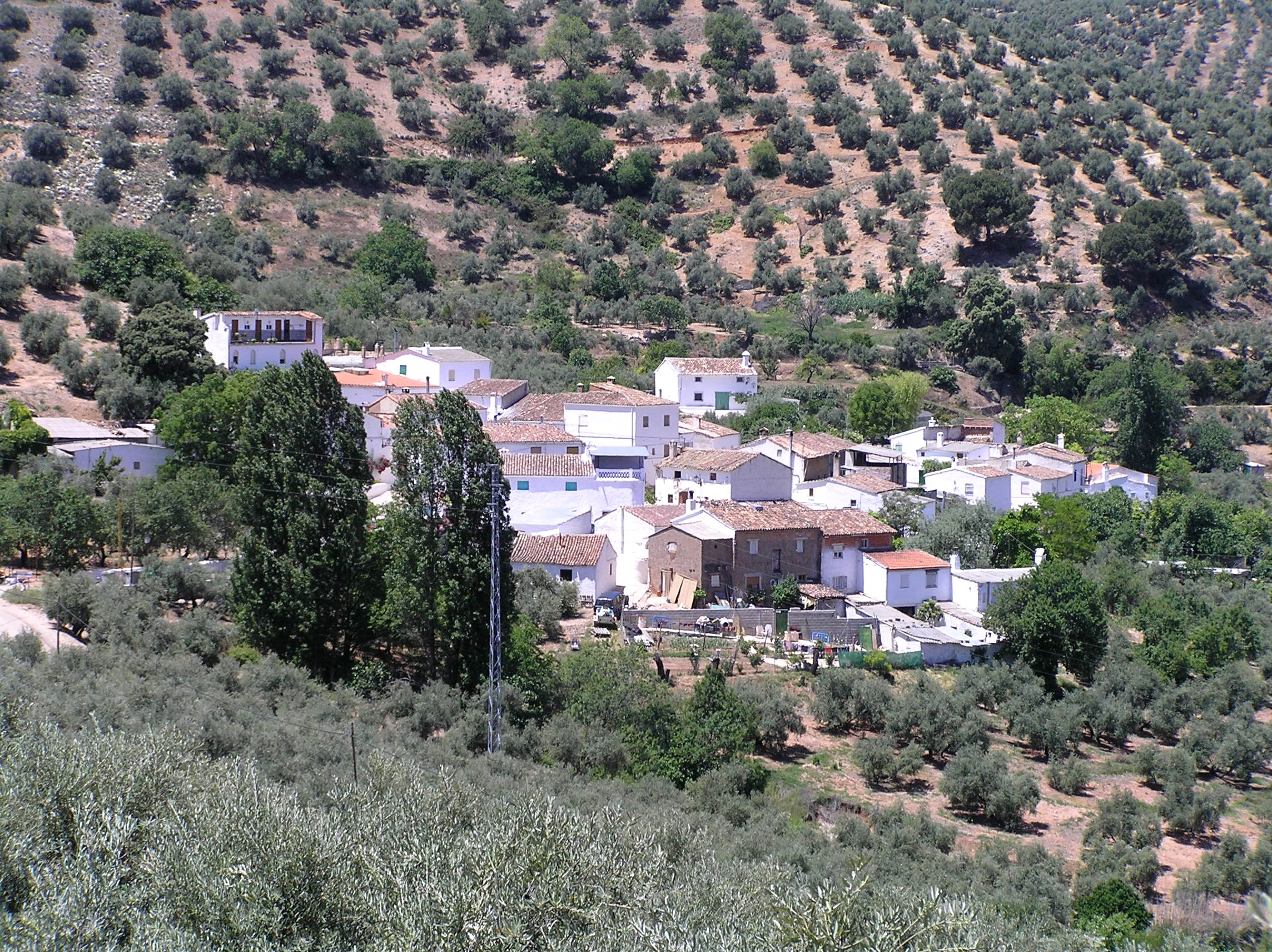 Prados de Armijo umbría